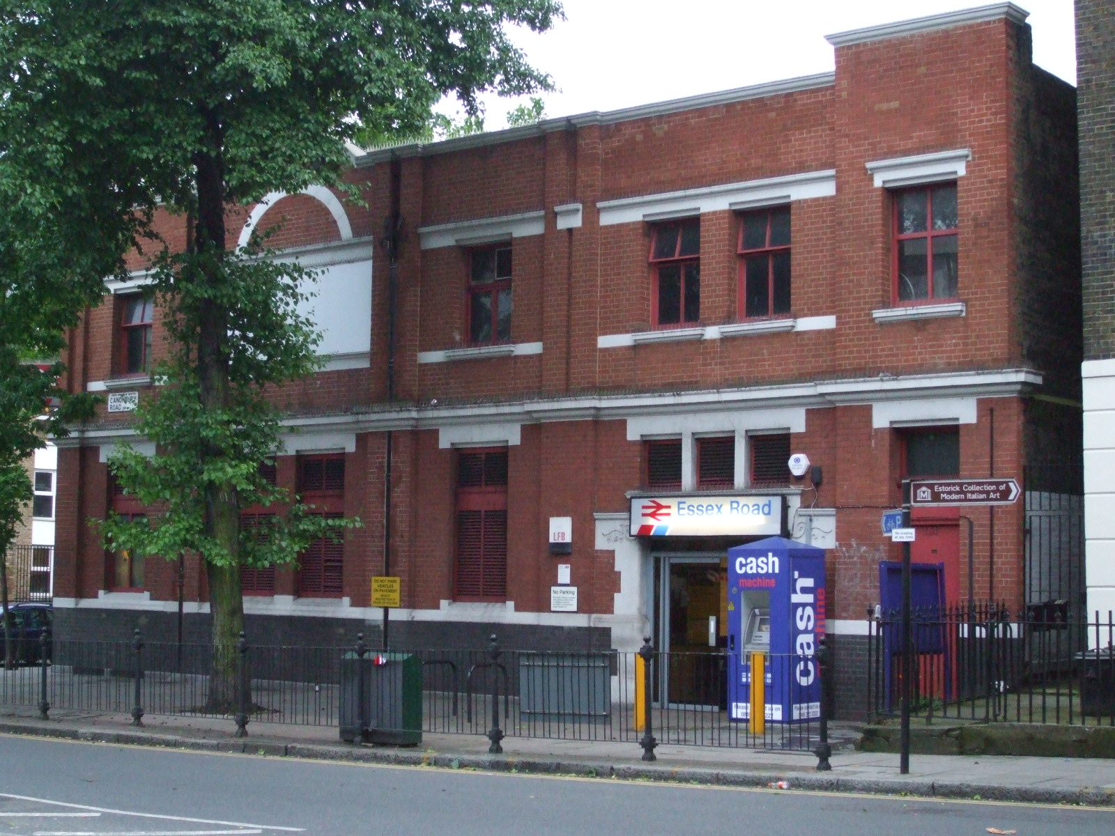 Essex Road station building. The entrance is actually on Canonbury Road.